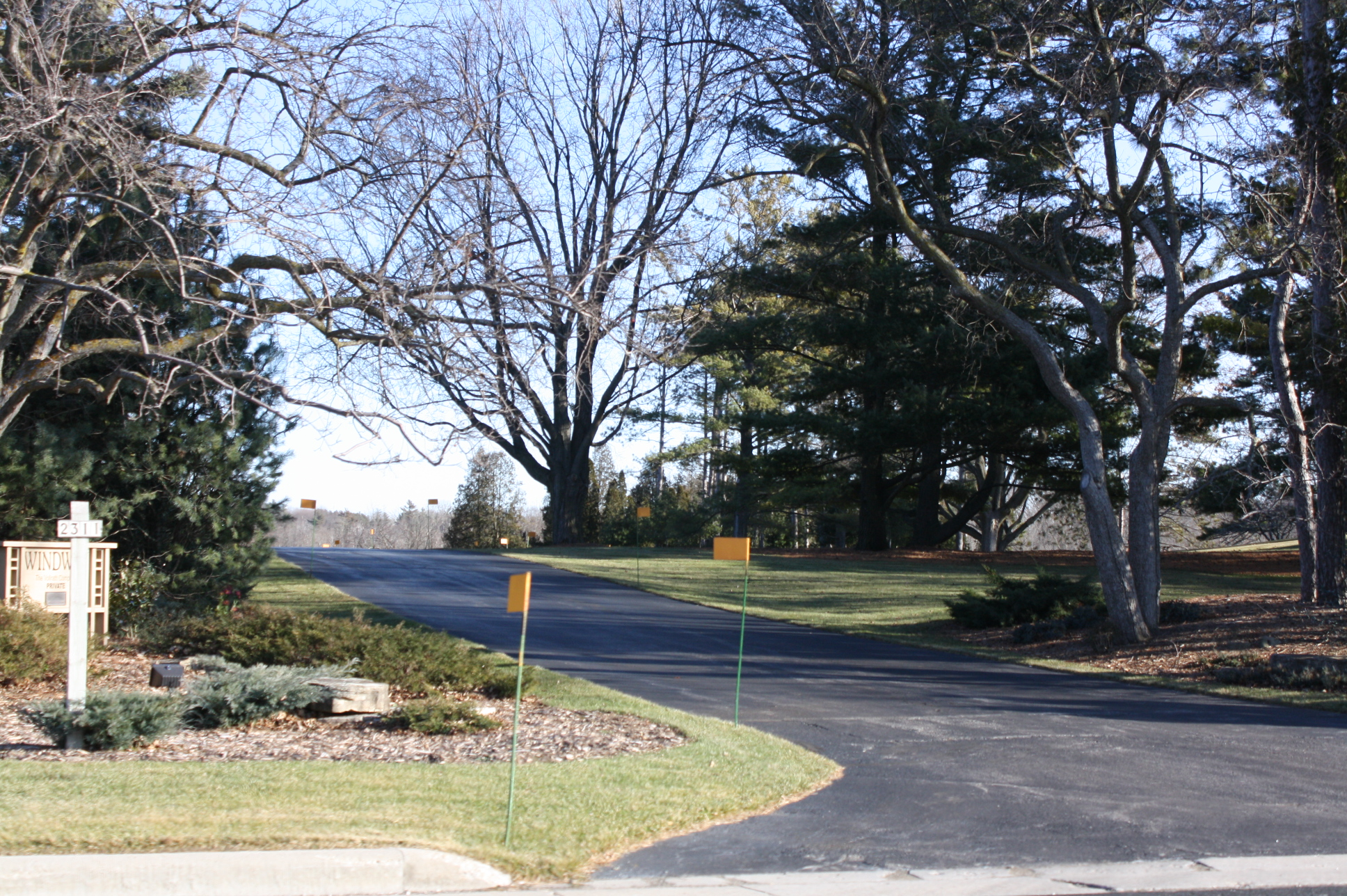 Windway in the town of Sheboygan (NOT the city of Sheboygan). It is listed on the National Register of Historic Places.